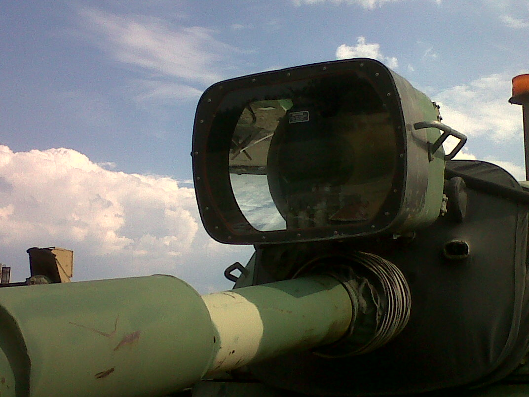 Infrared searchlight of an M60 Patton tank, taken at the Russell Military Museum